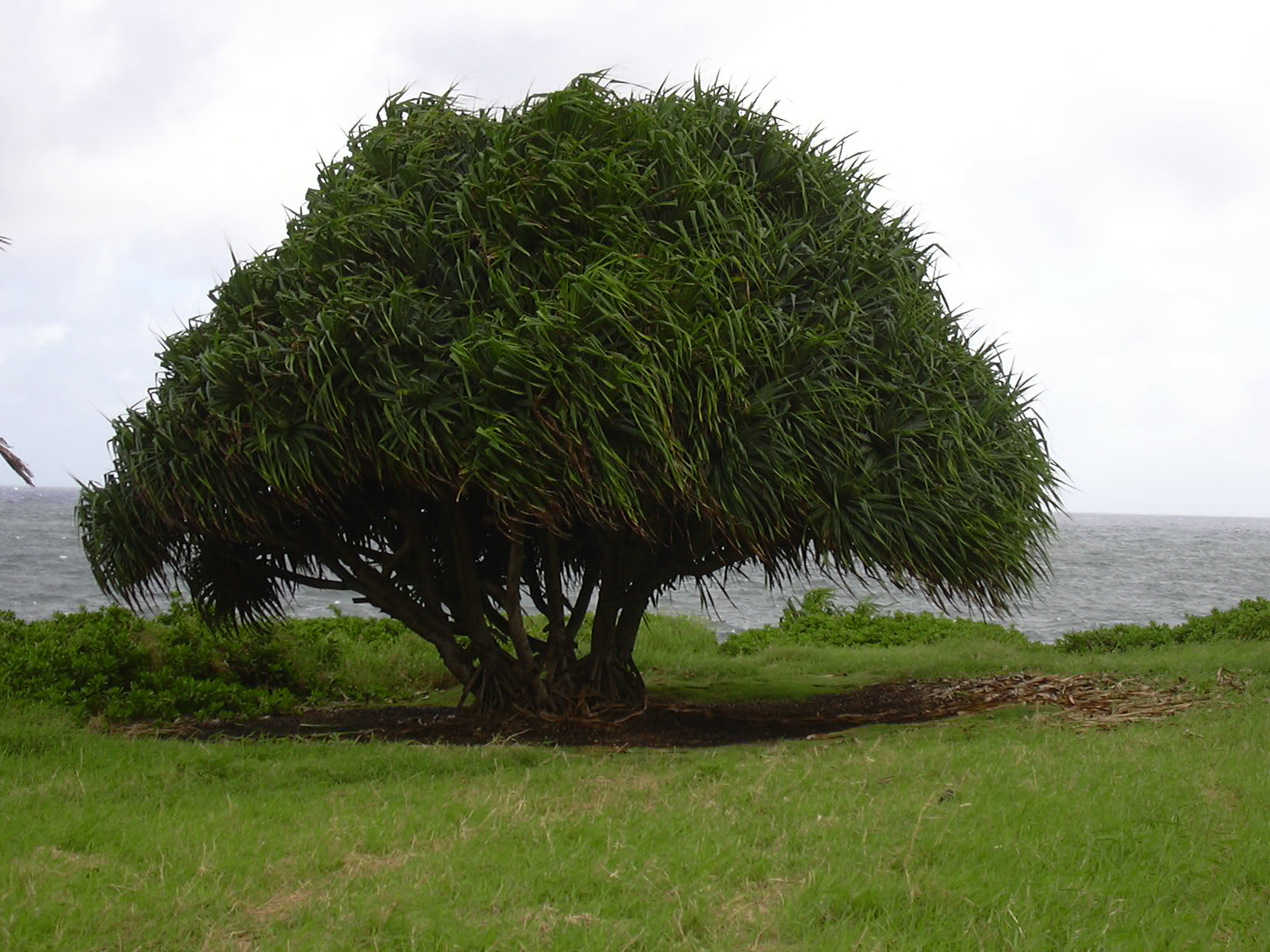 Pandanus tectorius (habit). Location: Maui, Kipahulu